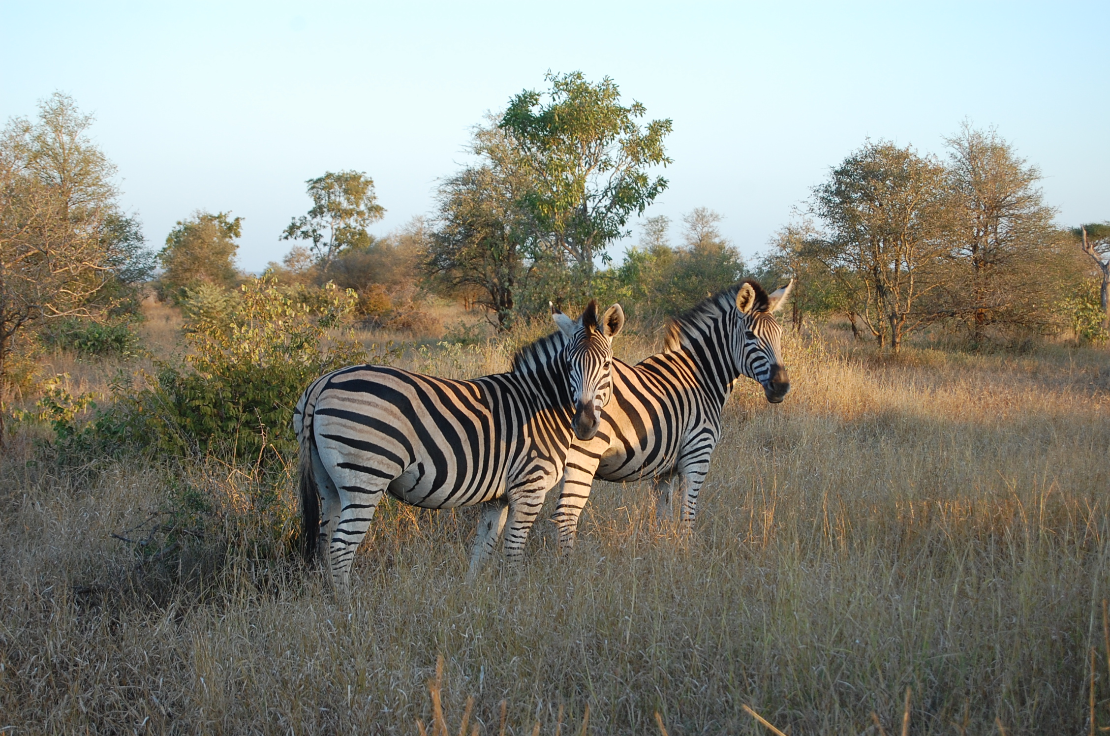 Two Burchell's zebra in the central Kruger National Park, South Africa